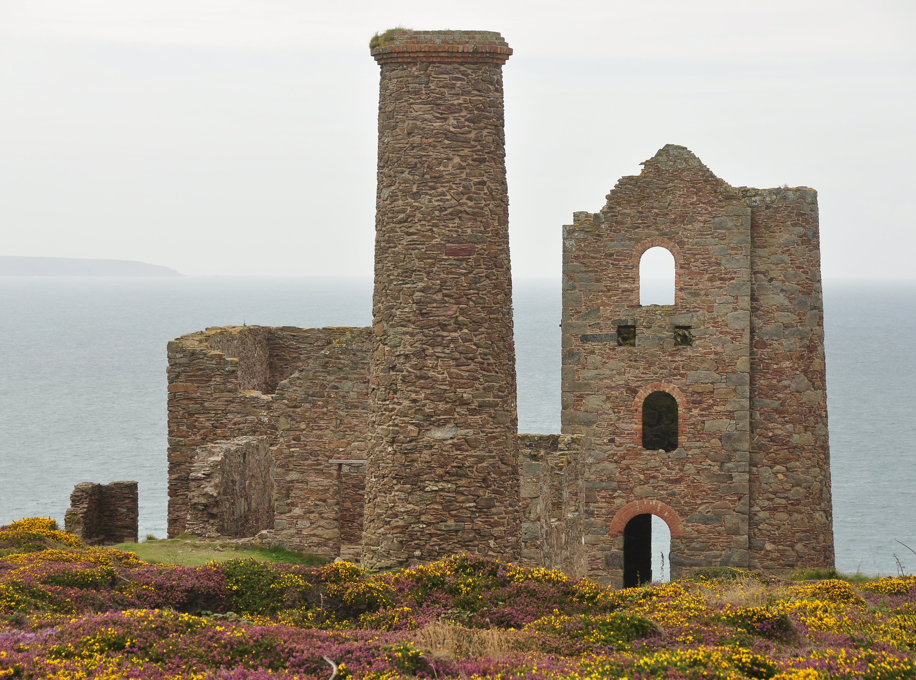 Various ruined buildings at Wheal Coates, near St Agnes, Cornwall. Two whim engine houses are visible.